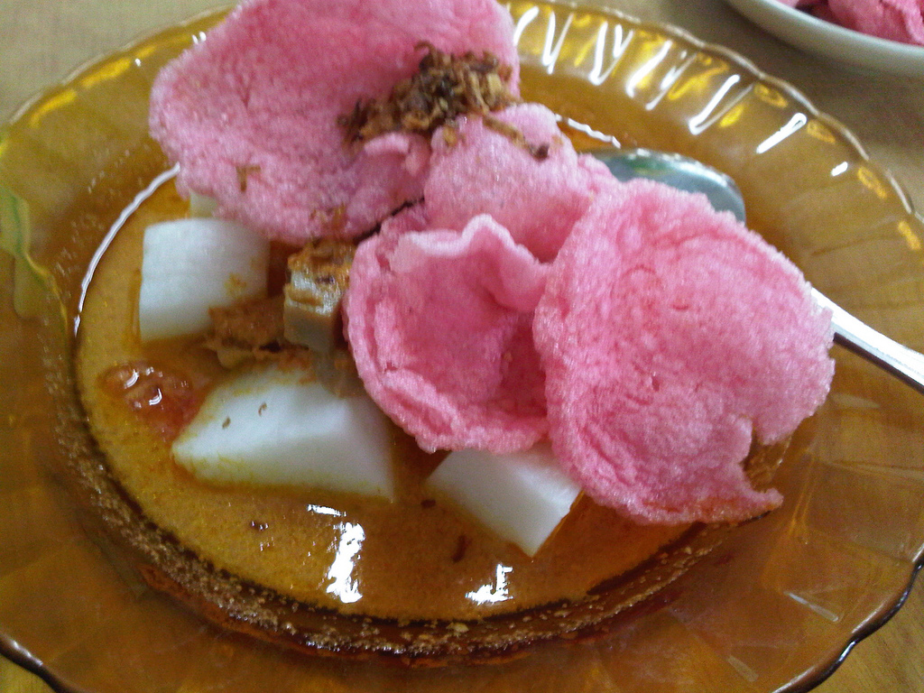 Lontong sayur, rice cakes served with coconut milk curry